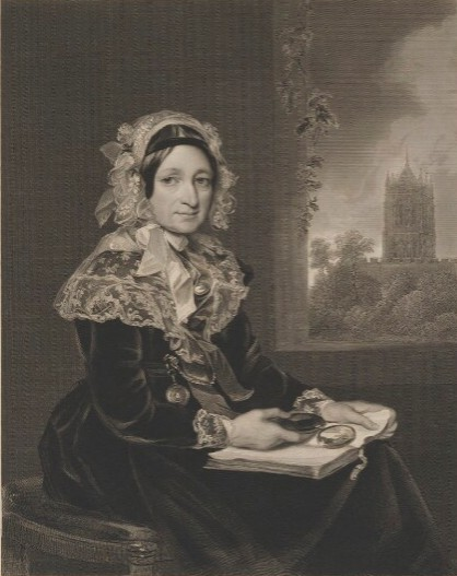 Portrait of Lady Elizabeth Isabella Norman (1776–1853), English philanthropist.